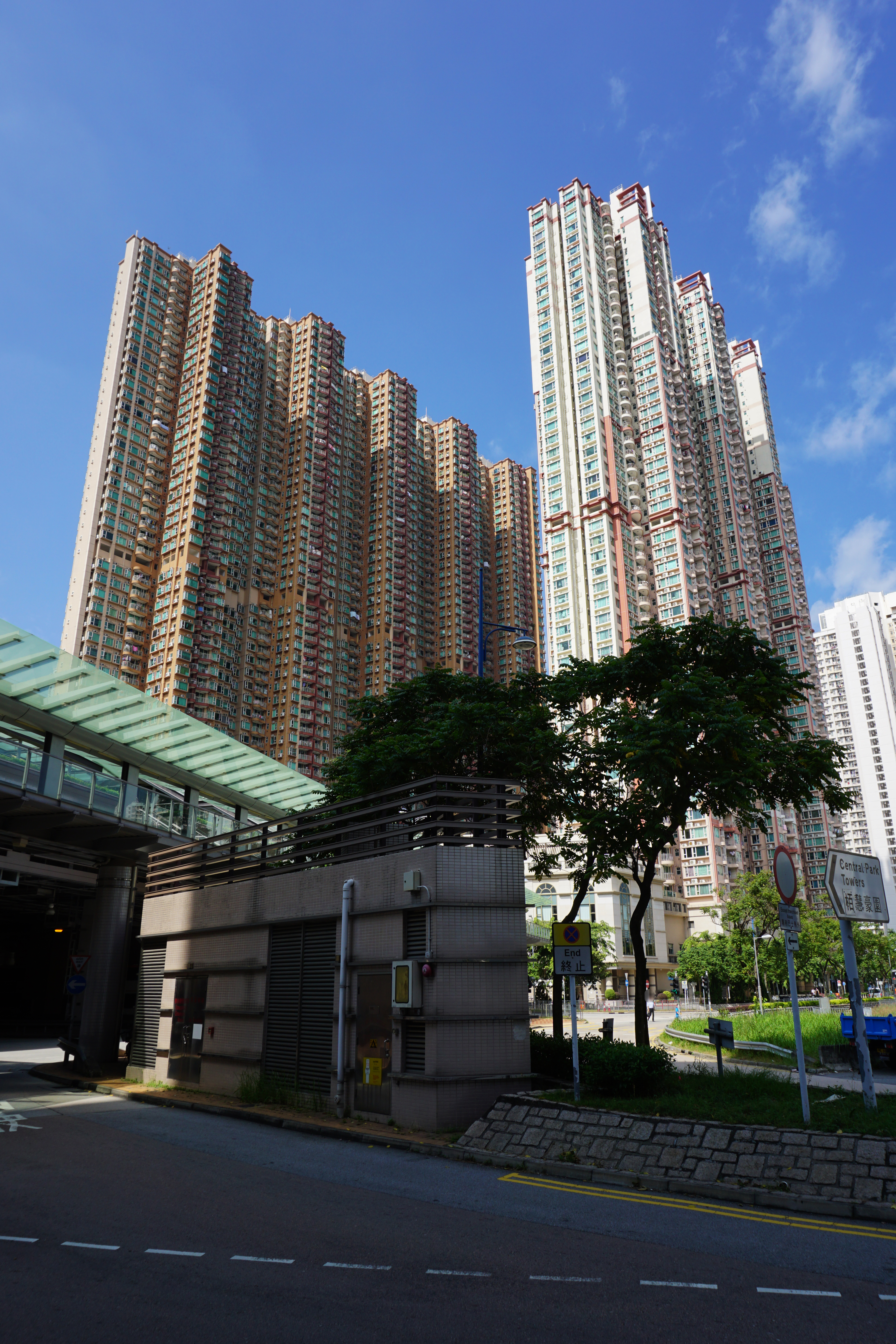 Central Park Towers in Tin Shui Wai, Hong Kong.